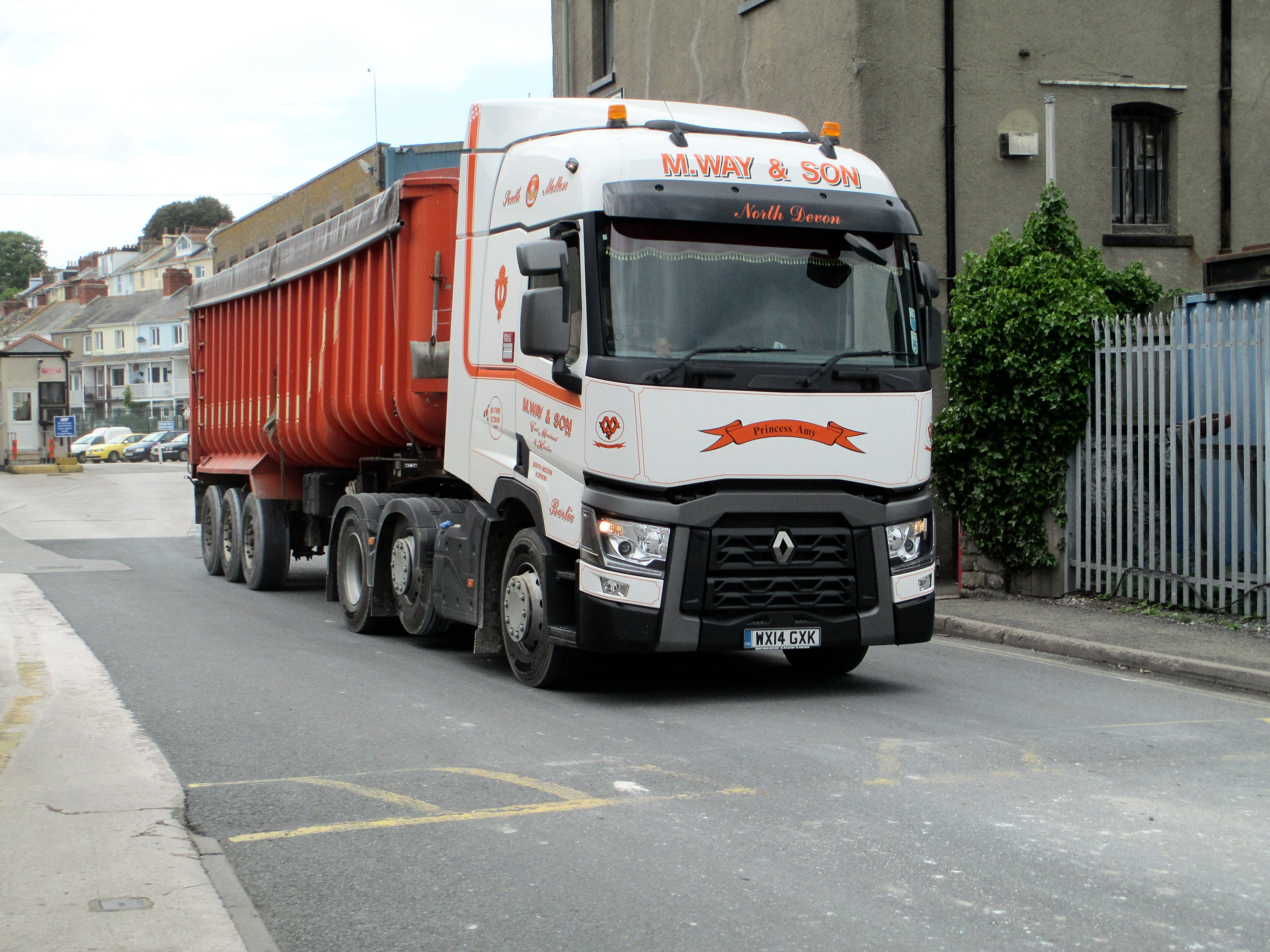 M. Way and Son Renault truck WX14 GXK "Princess Amy" captured on 27 May 2014 leaving The Port of Teignmouth after delivery of a bulk load for shipping.